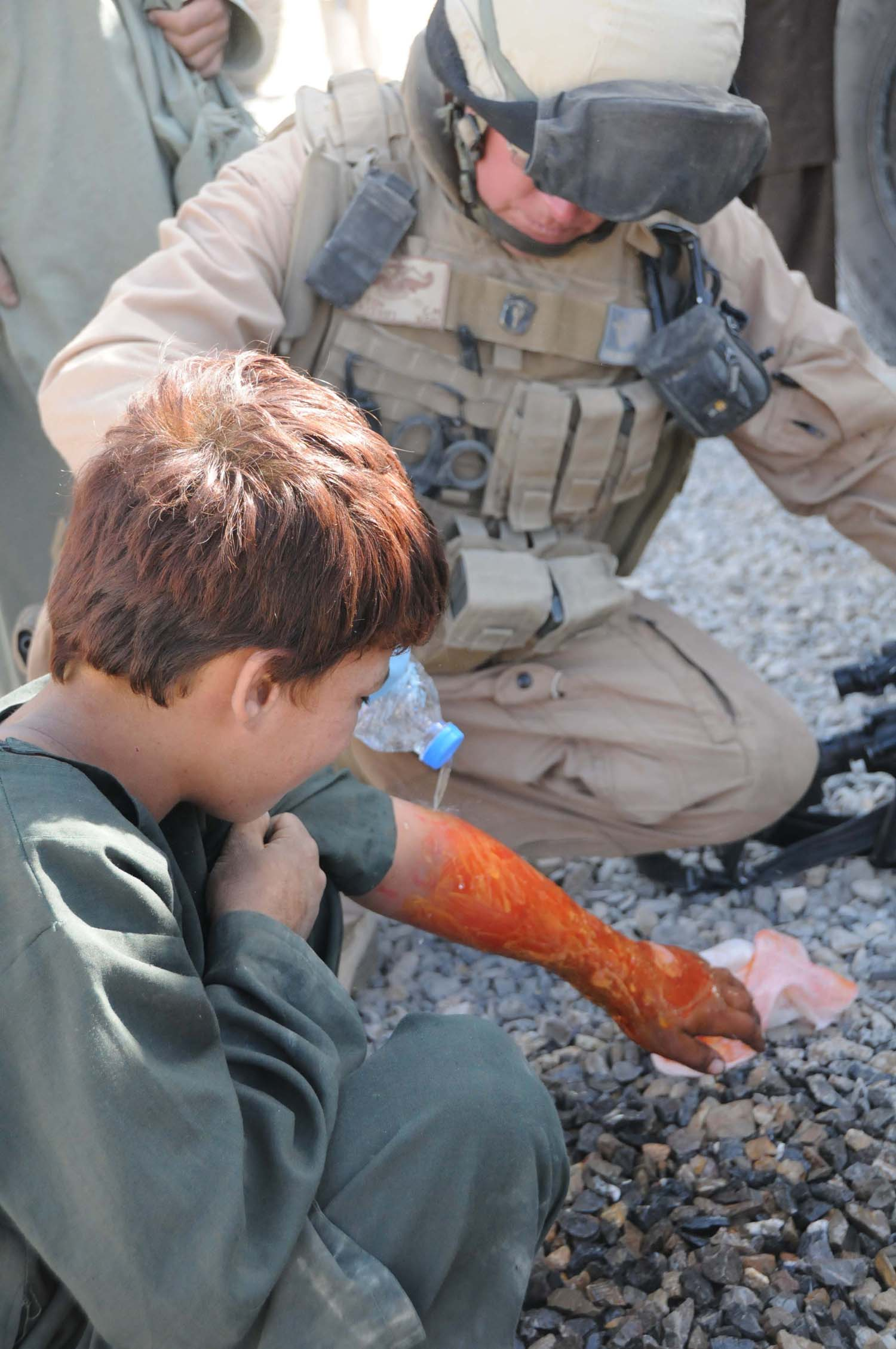 KANDALAY, Afghanistan (Oct. 12, 2010) Hospital Corpsman 2nd Class Chris Lutton, assigned to Naval Mobile Construction Battalion (NMCB) 18, and a Soldier assigned to the International Security Assistance Force provide medical treatment to a boy near Combat Outpost Kandalay. The boy and his brother were filling a lit kerosene lamp when it exploded. Medical evacuation is not available, so the boys are being treated at the combat outpost. (U.S. Navy photo by Chief Mass Communication Specialist Terrina Weatherspoon/Released)